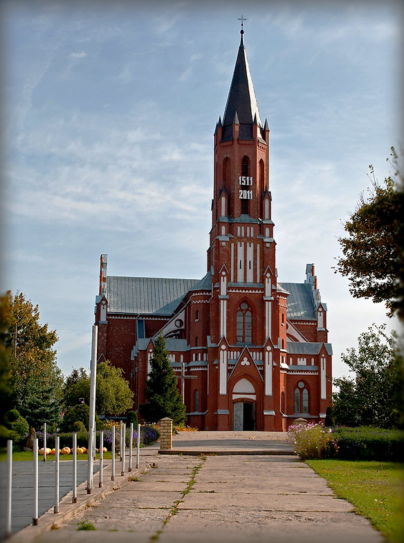 Catholic church of the Holy Trinity (1907-14) in Šyłavičy village, Vawkavysk district, Grodna Region, Belarus1